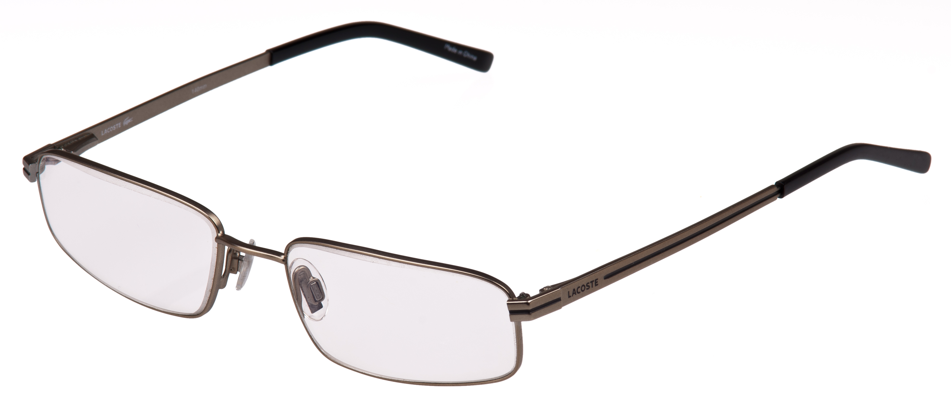 A pair of reading glasses with LaCoste frames.